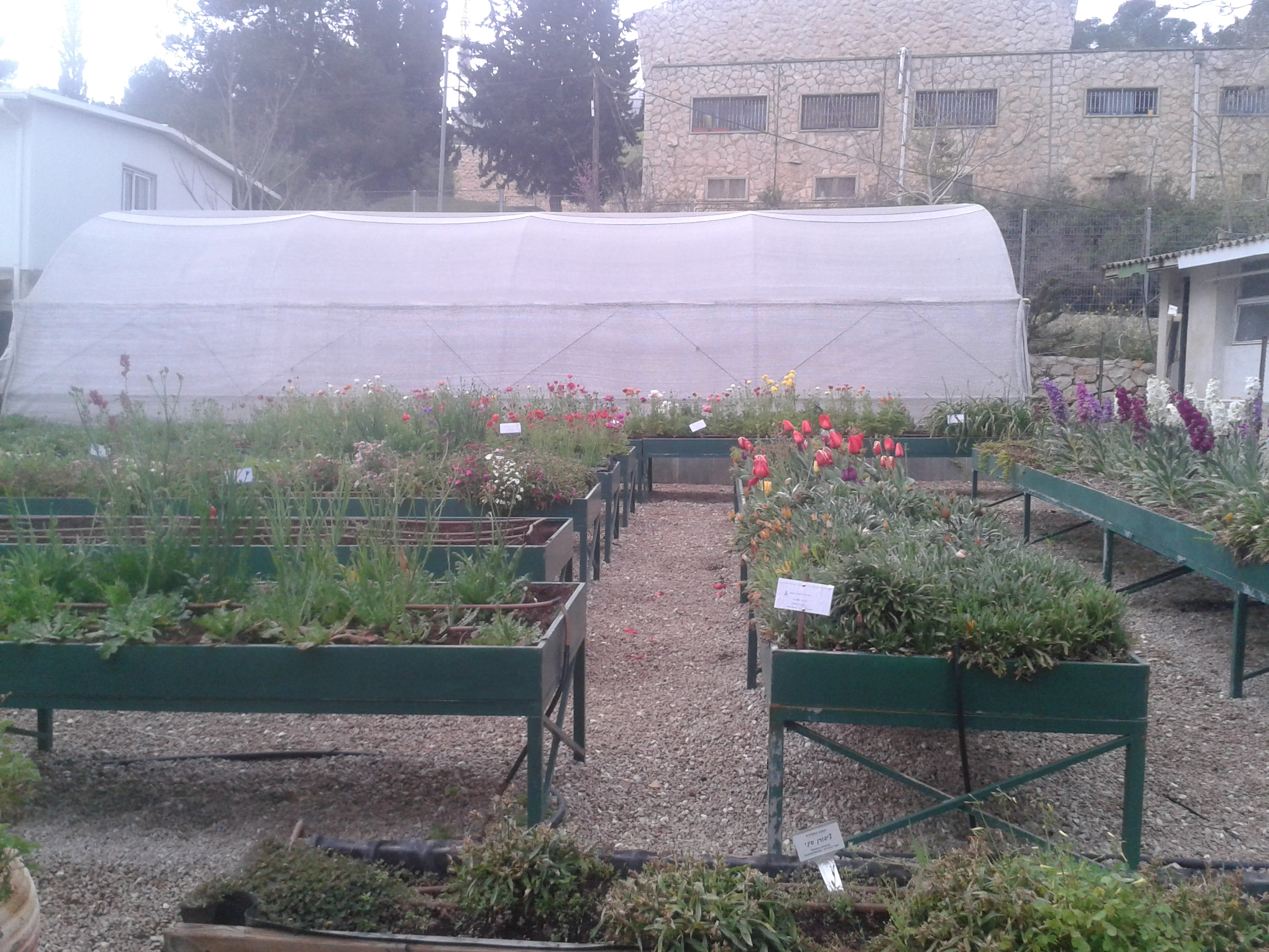 Flowers and Greenhouse in school garden, botanical garden, Jerusalem, Israel